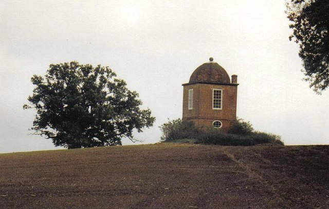 Wimborne St. Giles: Philosopher’s Tower This folly sits in a field, clearly visible from the B3078 just south of Cranborne. It was built in around 1700, by the 3rd Earl of Shaftesbury – whose family held the St. Giles estate just west of here – who was a noted philosopher. It is thought that he did a lot of his philosophising in this tower, and from this suggestion it has become known as the Philosopher's Tower.